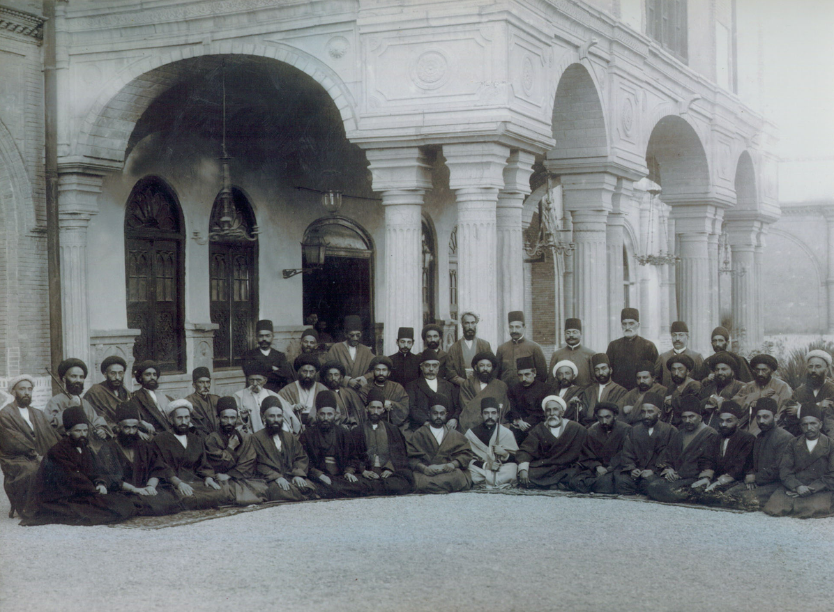 This photograph shows the representatives of the first Iranian Majles (parliament) in front of the military academy, which served as the first parliament building. In the 1870s–early 20th century, leading political figures in Iran concluded that the only way to save country from government corruption and foreign manipulation was to make a written code of laws, an attitude that laid the foundation for the Iranian Constitutional Revolution of 1905–7. The movement for a constitution bore fruit during the reign of Muẓaffar ad-Dīn Shah of the Qajar dynasty, who ascended to throne in June 1896. Under relentless pressure from the proponents of constitutional rule, Muẓaffar ad-Din Shah was forced to issue, on August 5, 1906, the decree for the constitution and creation of the elected Majles (National Consultative Assembly). On August 18, 1906, the first legislative assembly, the Supreme National Assembly, gathered in the national military academy to prepare for the opening of the first term of the National Consultative Assembly and to draft a parliamentary electoral law. On October 7, 1906 the shah inaugurated the first session of the Majles (October 7, 1906–June 23, 1908). The most important task undertaken by the first Majles was to draft and ratify the constitution, which was completed on December 30, 1906. This session also established the internal procedures for the Majles and drafted and ratified, on October 17, 1907, the constitutional amendments. Government buildings; Government officials; Group portraits; Iran. National Consultative Assembly; Politics and government; Portraits; Qajar dynasty, 1794-1925